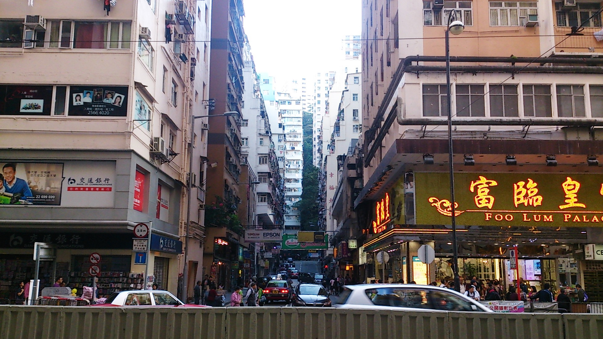 Kam Ping Street near King's Road